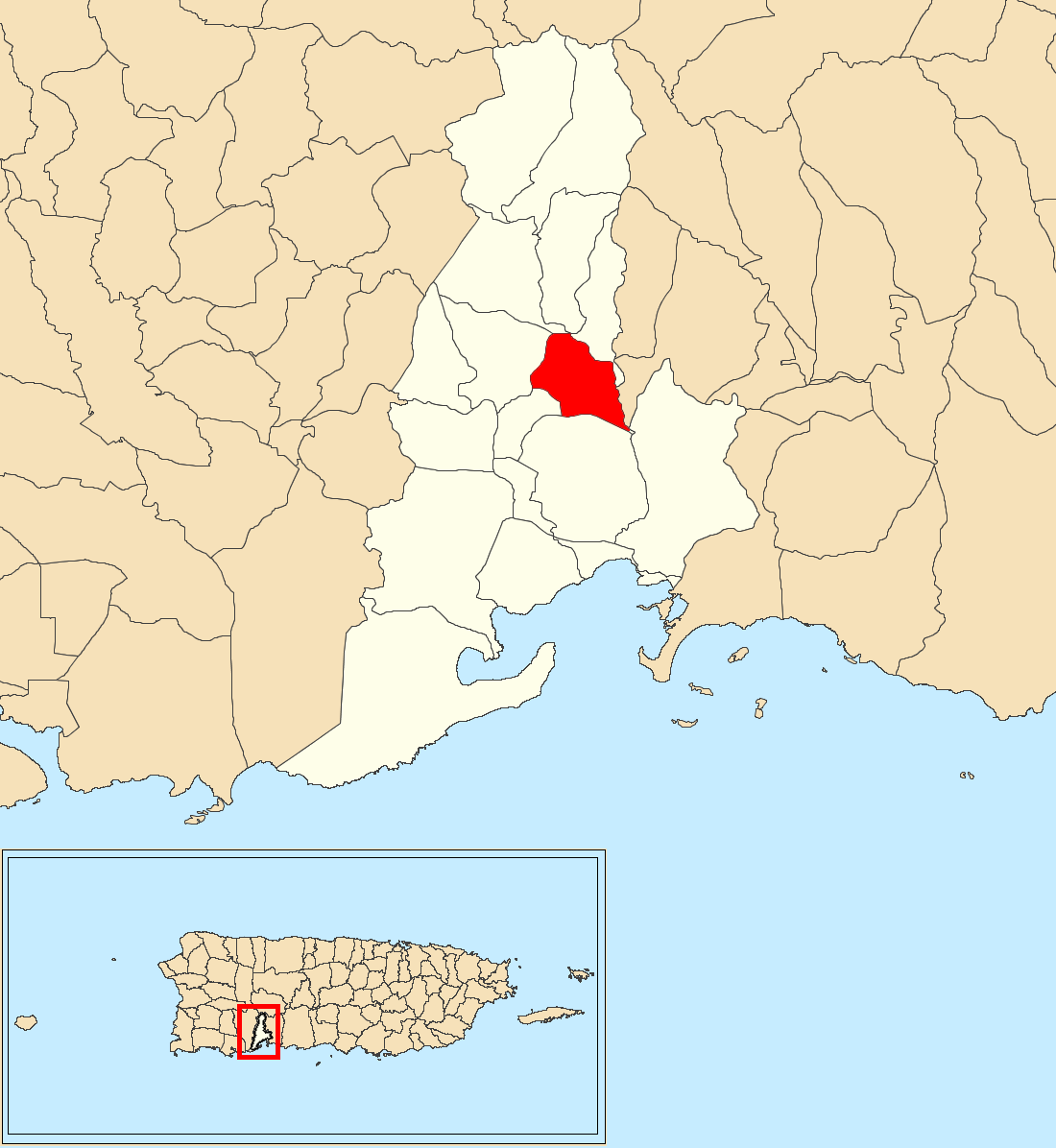 Macaná, Guayanilla, Puerto Rico locator map